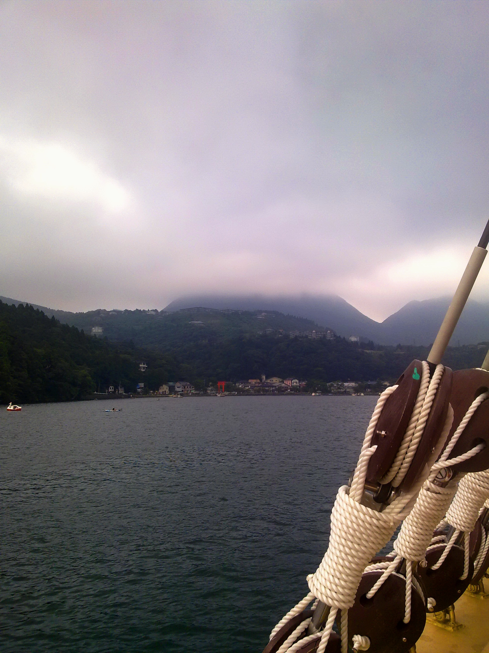 Picture of Lake Ashi in Hakone, Japan